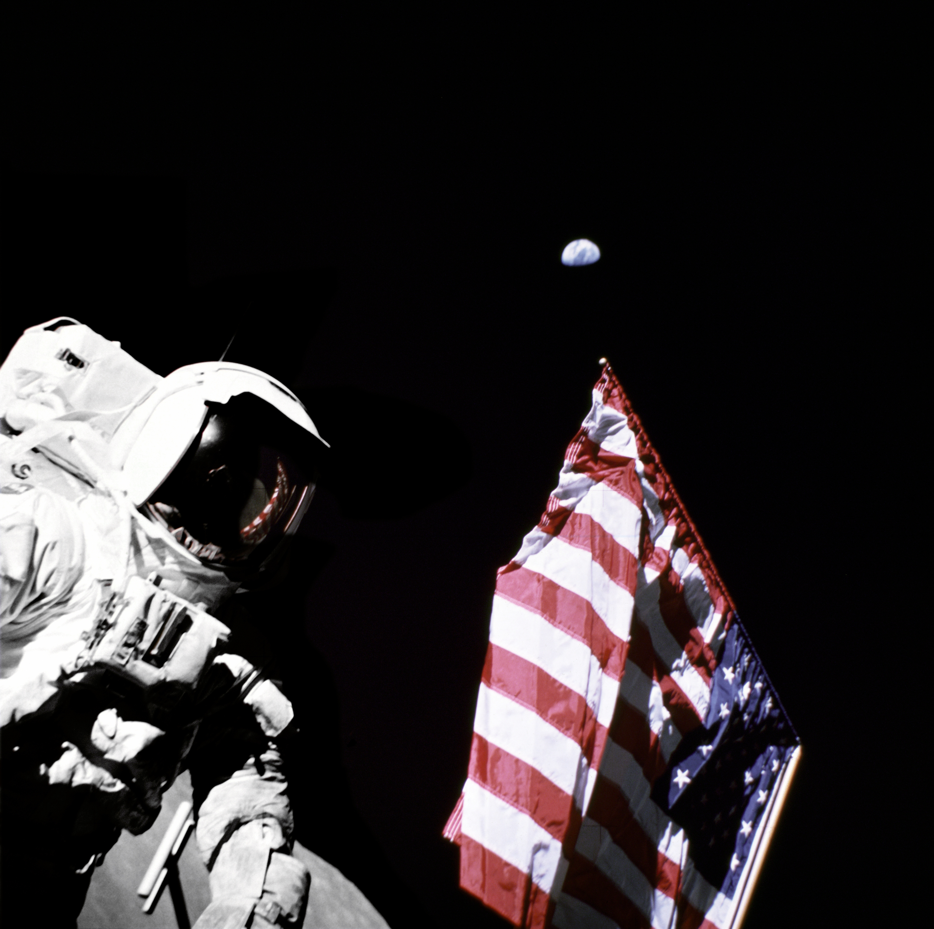 Geologist-Astronaut Harrison Schmitt, Apollo 17 Lunar Module pilot, is photographed next to the American Flag during extravehicular activity (EVA) of NASA's final lunar landing mission in the Apollo series. The photo was taken at the Taurus-Littrow landing site. The highest part of the flag appears to point toward our planet earth in the distant background.